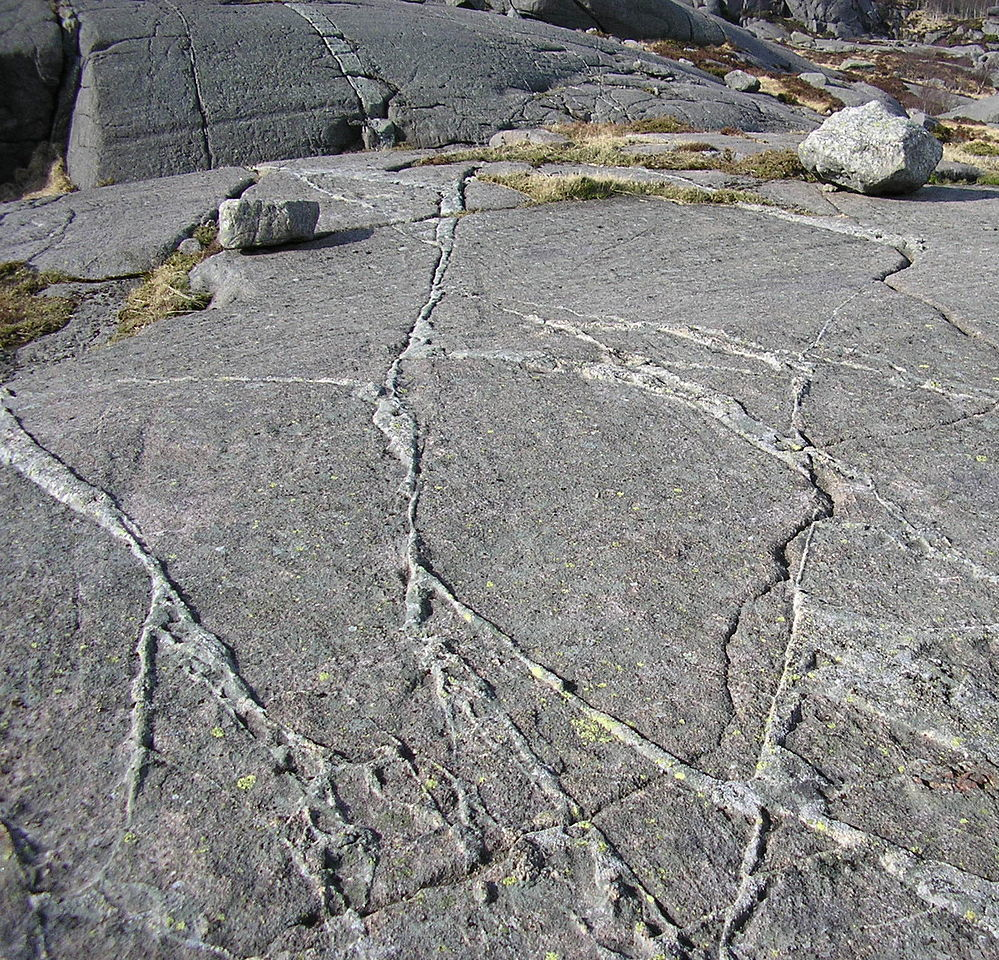 Charnockite dykes cutting the Helleren anorthosite massif, Jibbeheia, Rogaland, Norway